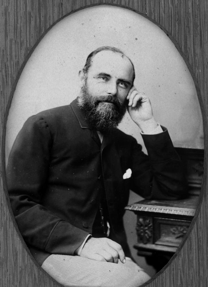 Honourable Walter Horatio Wilson 1887. Queensland solicitor. Born in Wales in 1839, son of Benjamin (Benajmin) Frederick an attorney. Walter married Elizabeth Hannah Feild in 1862 and died in February 1902, Brisbane. When he came to Queensland after a sojourn in Victoria, he worked for the solicitor Wilson and Hemming until death. He was a member of the Brisbane Hospital board; Fellow of the Royal College Institute; Alderman for Toowong Shire Council. CMG. MLC 1885-1902. PMG 1887-1888. Secretary Public Instruction, Minister of Justice and PMG 1898-1899; BC, 1 March 1902. Information taken from D. Waterson, A Biographical Register of the Queensland Parliament 1860-1829, Australian National University Press, Canberra, 1972, pp 193-194.).